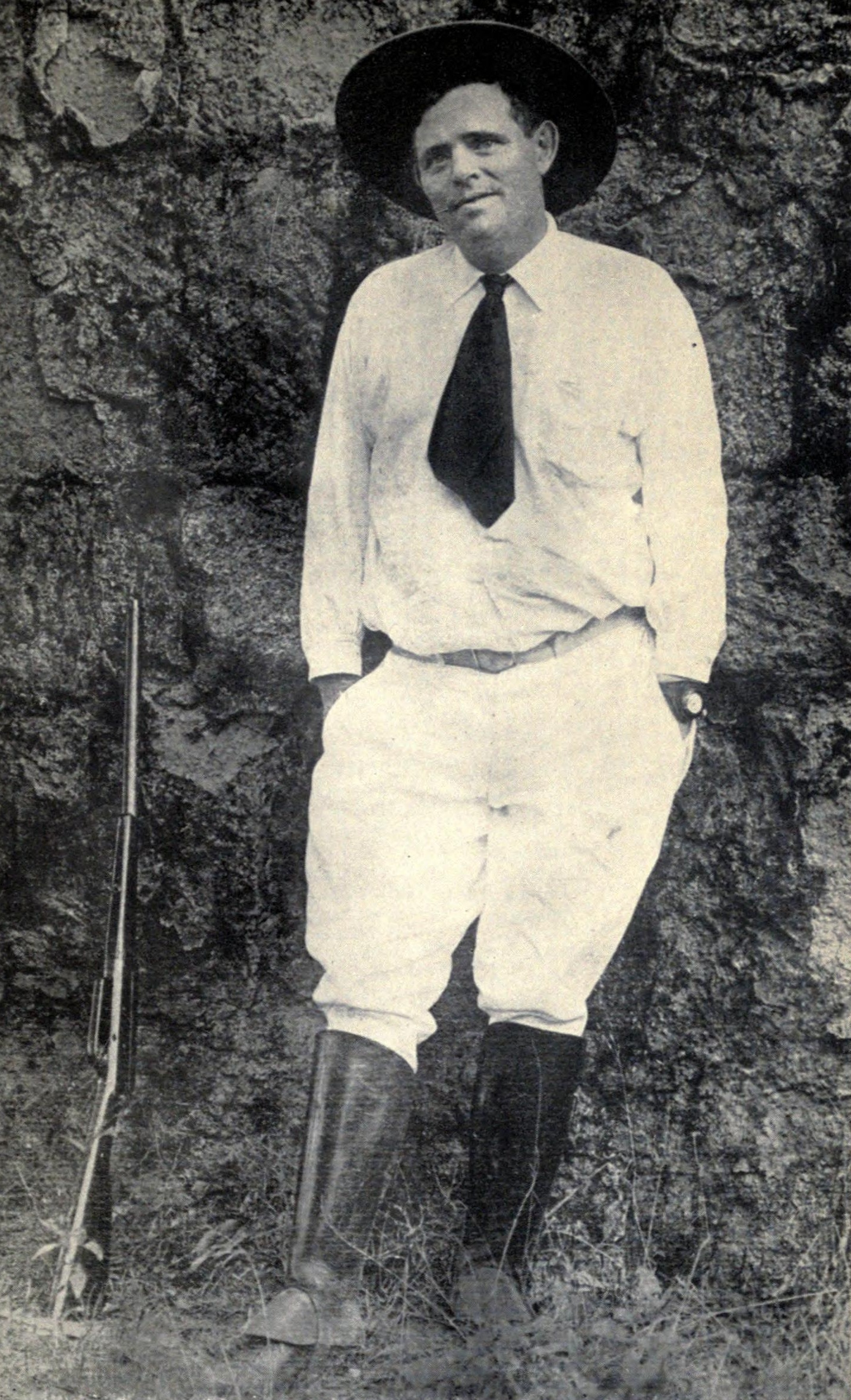 Jack London 6 days before his death 1916